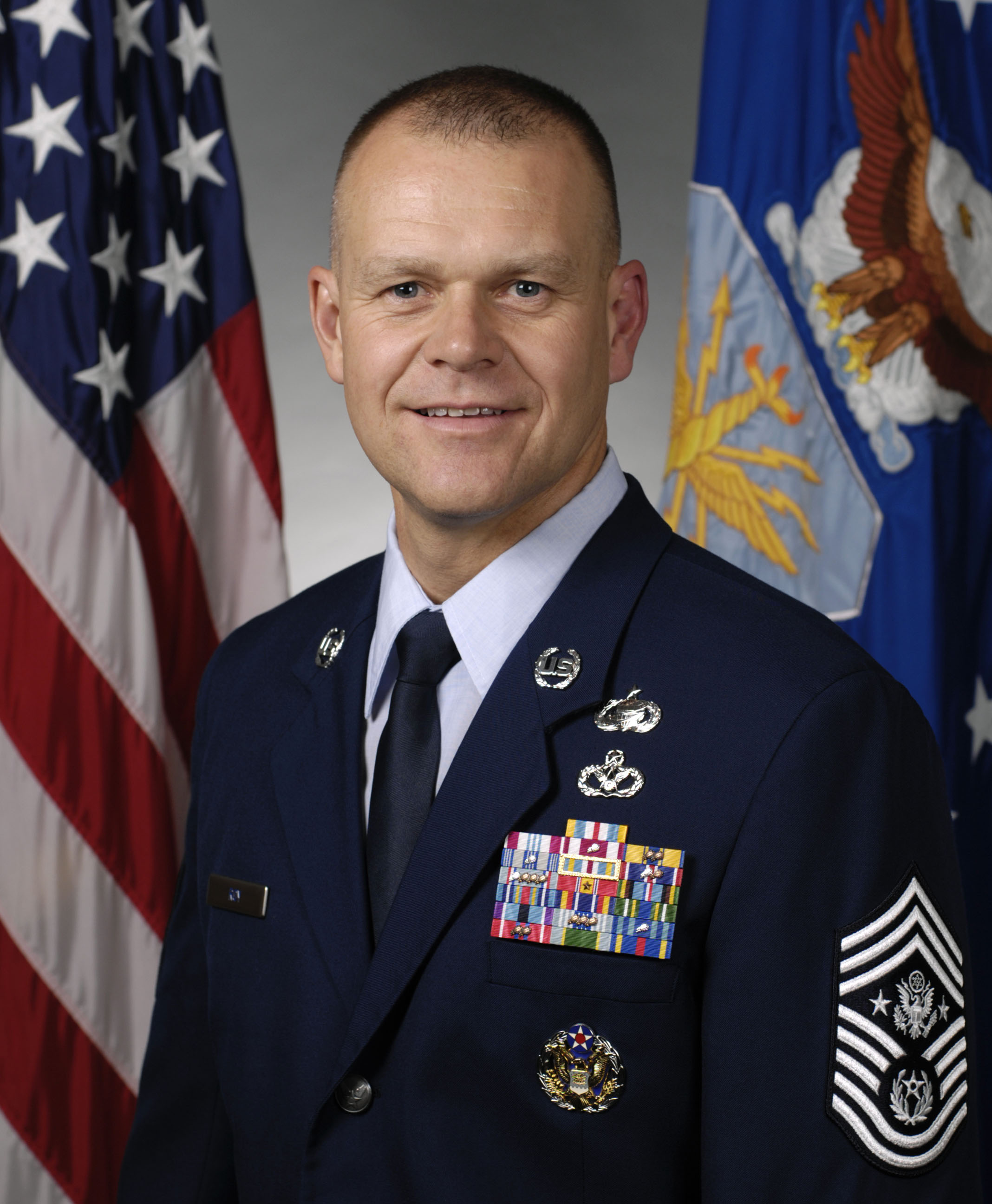 Official United States Air Force photo of CMSgt James A. Roy